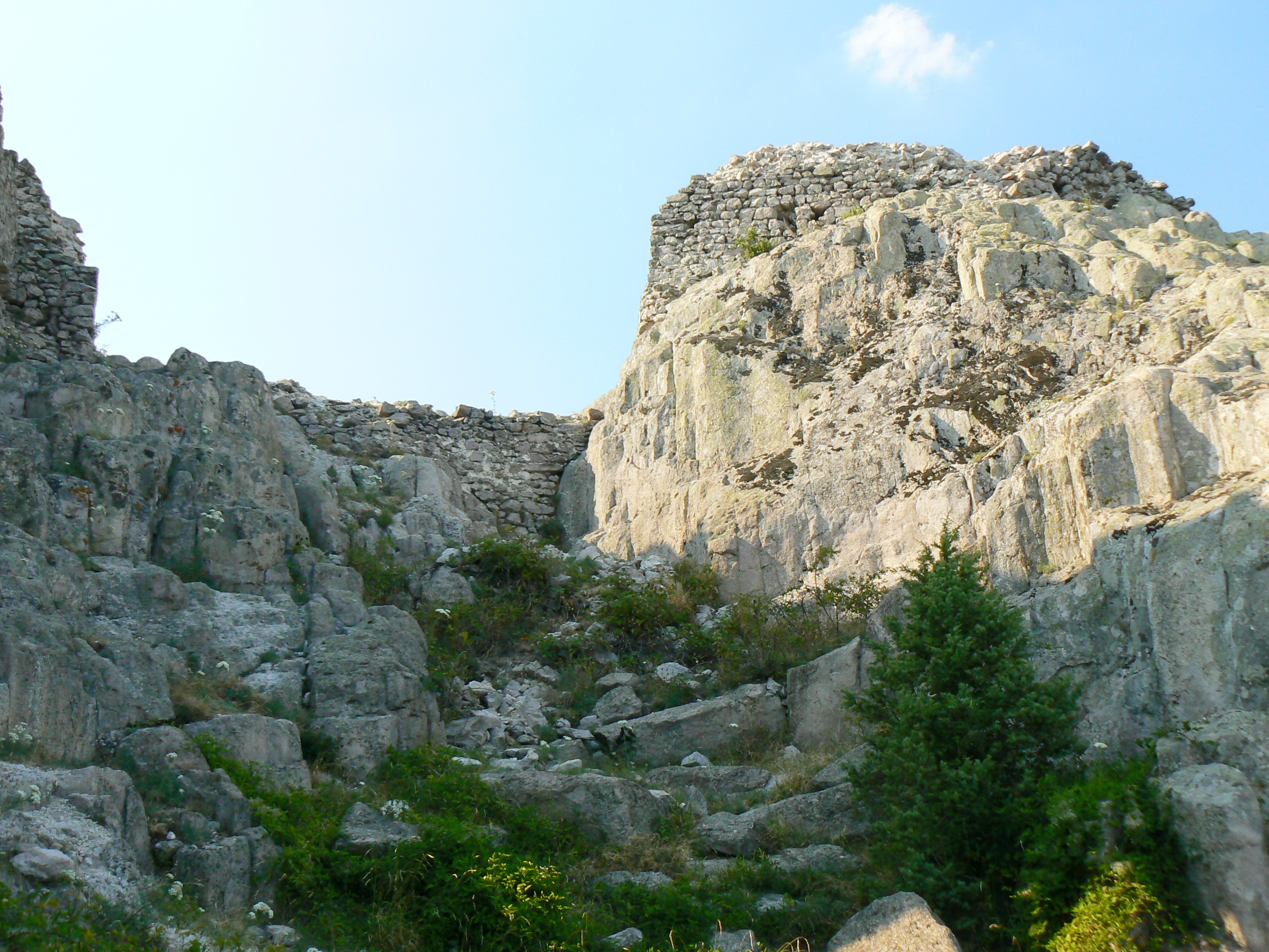 General view to the Ustra fortress, Rhodope Mountains, Bulgaria